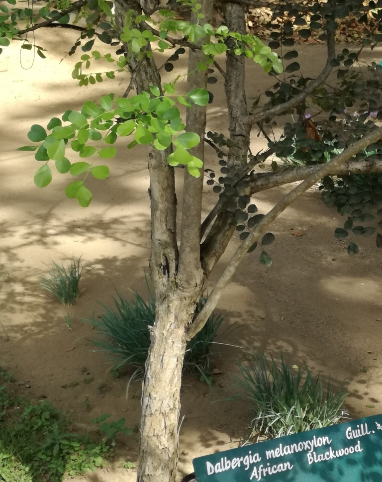 Dalbergia melanoxylon - Arusha gardens